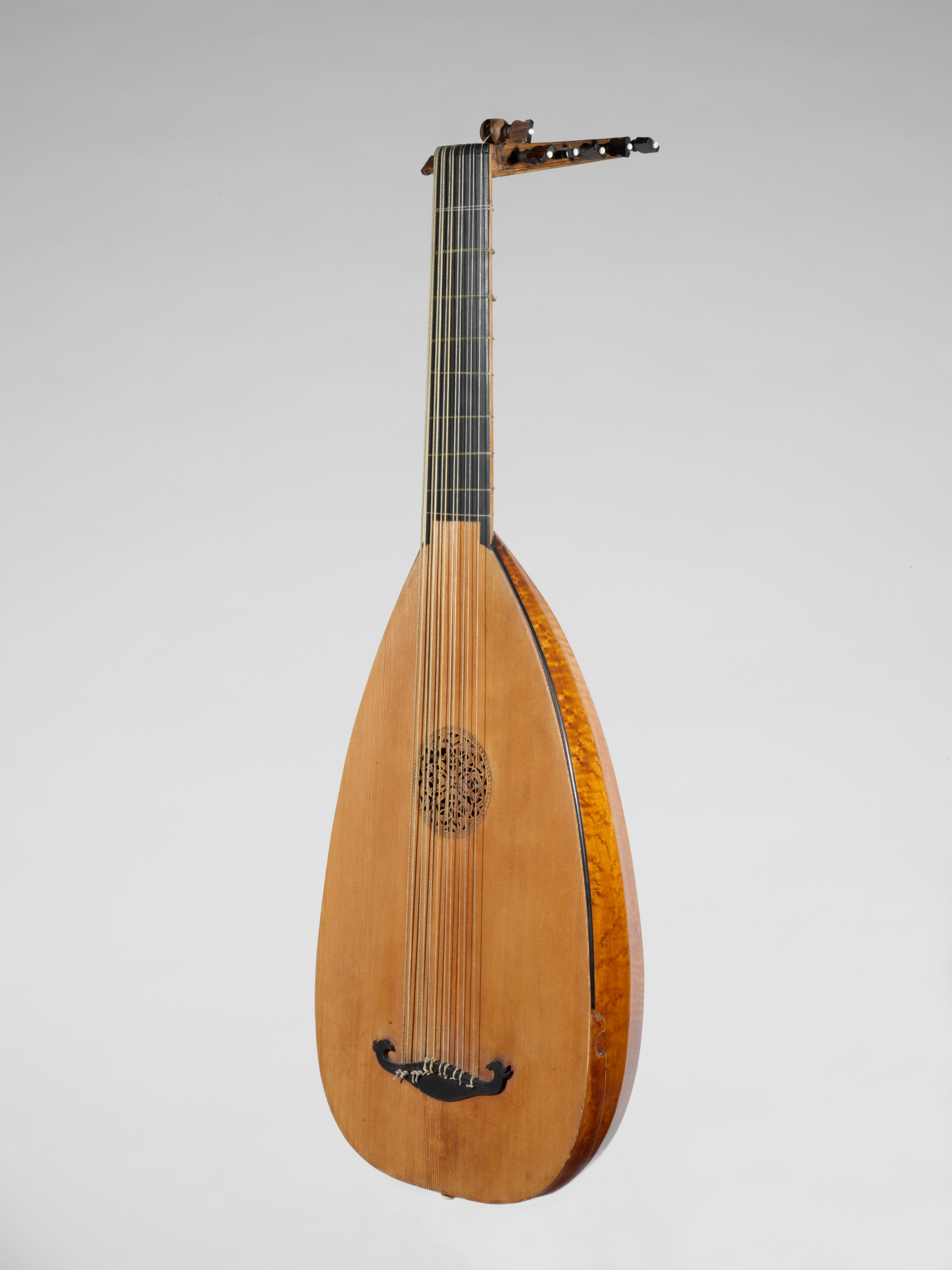 German; Mandora; Chordophone-Lute-plucked-fretted